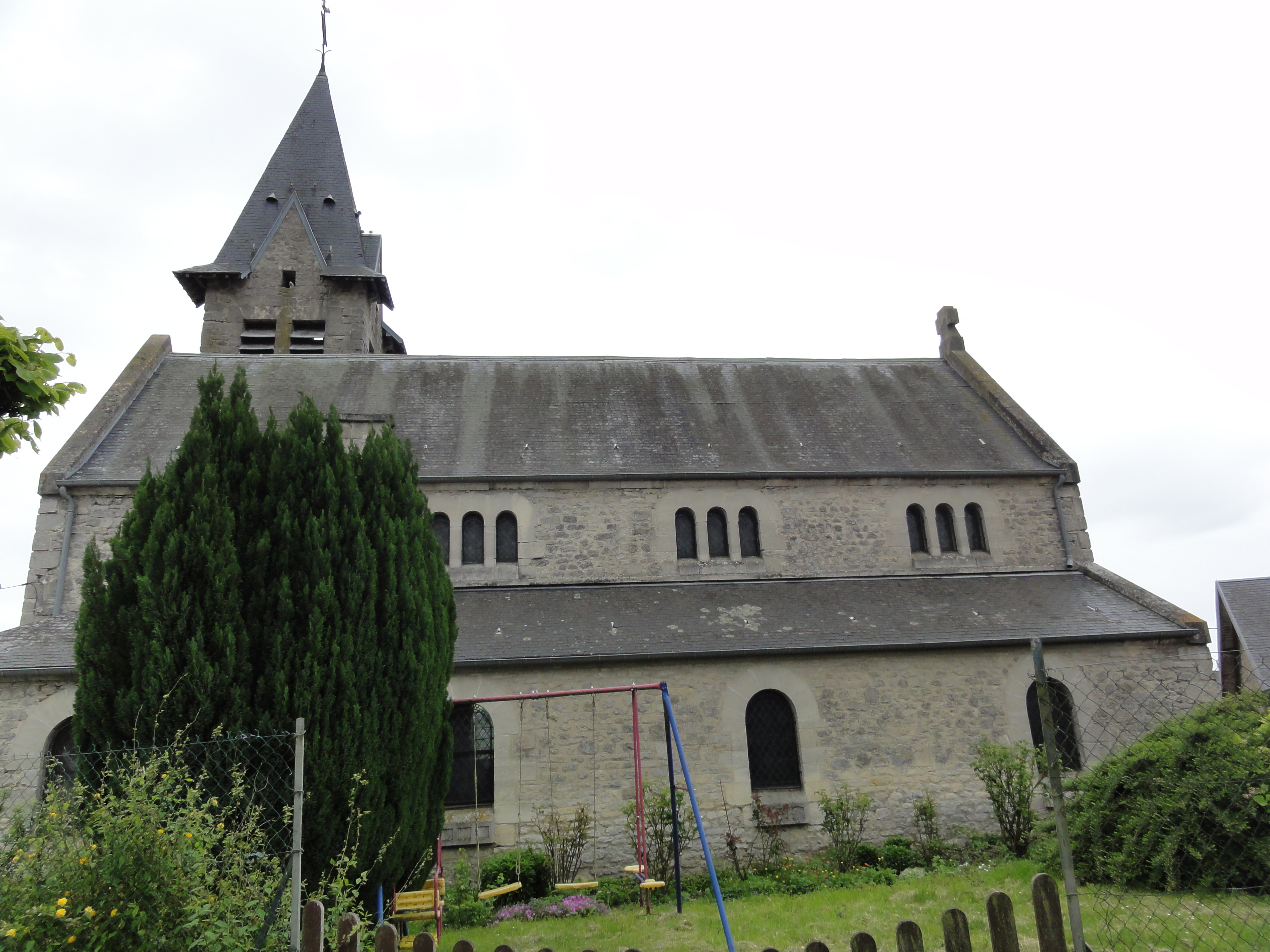 Sainte-Croix (Aisne) église Sainte-Croix